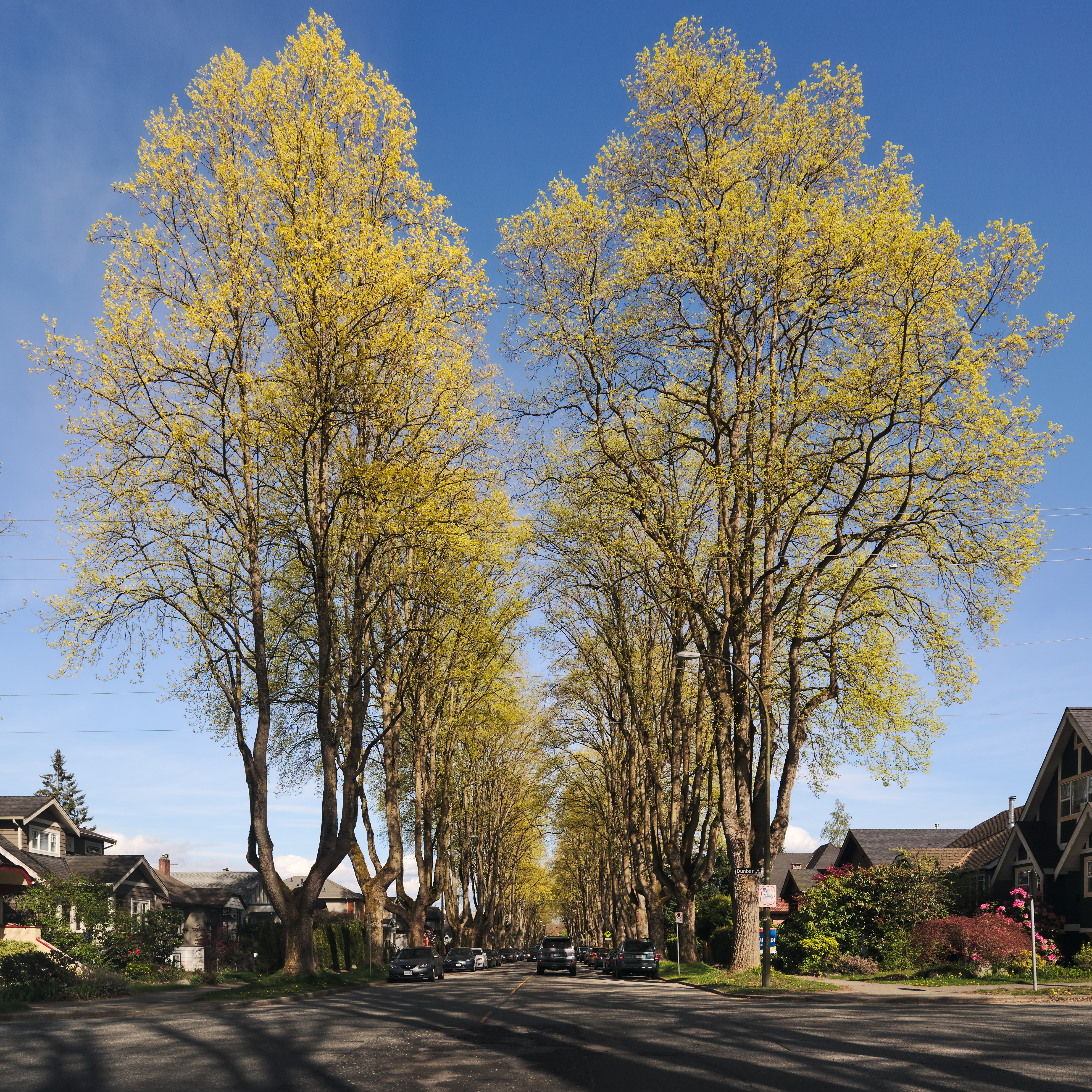 Rows of Liriodendron tulipifera (Tulip Poplar, Yellow Poplar) seen on 10th Avenue, looking eastwards, at the intersection with Dunbar in Vancouver. The trees were identified using the Vancouver Open Data Catalogue.